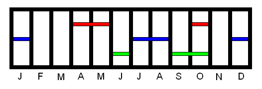 Reproductive cycle of Varanus salvator on West Kalimantan as indicated by Auliya (2006). Modified and shortened. Red=Mating, Blue=Ovipostion, Green=Hatching. J-D are month abbreviations. Source: M. A. Auliya (2006): Taxonomy, Life History and Conservation of Giant Reptiles in West Kalimantan. NTV, Münster. ISBN 3-937285-52-0